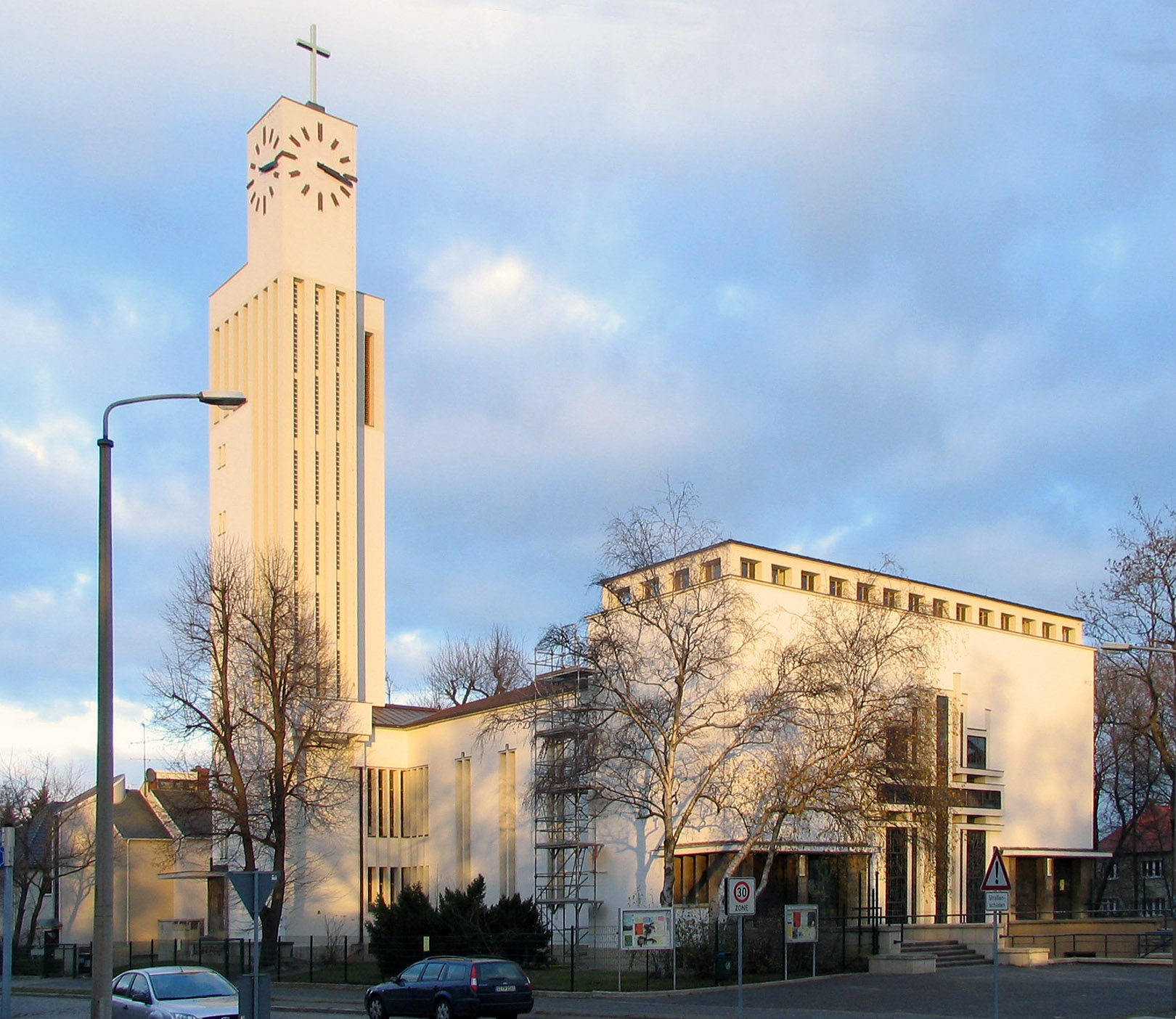 Church of Reconciliation in Leipzig-Gohlis